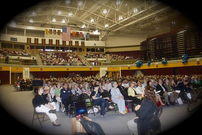 Photo of members of the West Michigan Conference meeting at Calvin College, Grand Rapids, MI